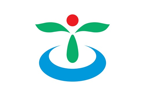 Flag of Koga Ibaraki